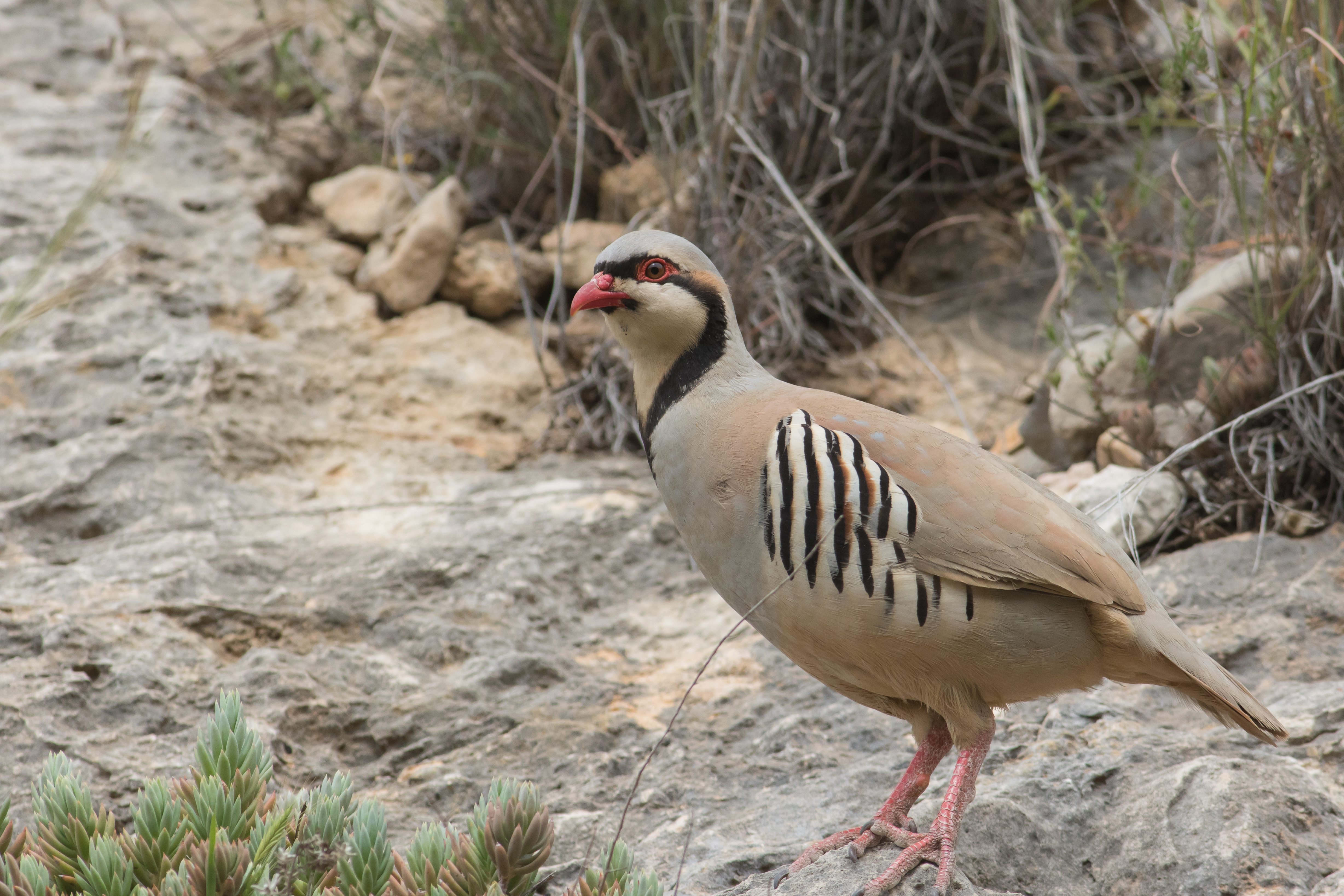 Chukar partridge, photo taken by Ha-Teomim cave, Israel